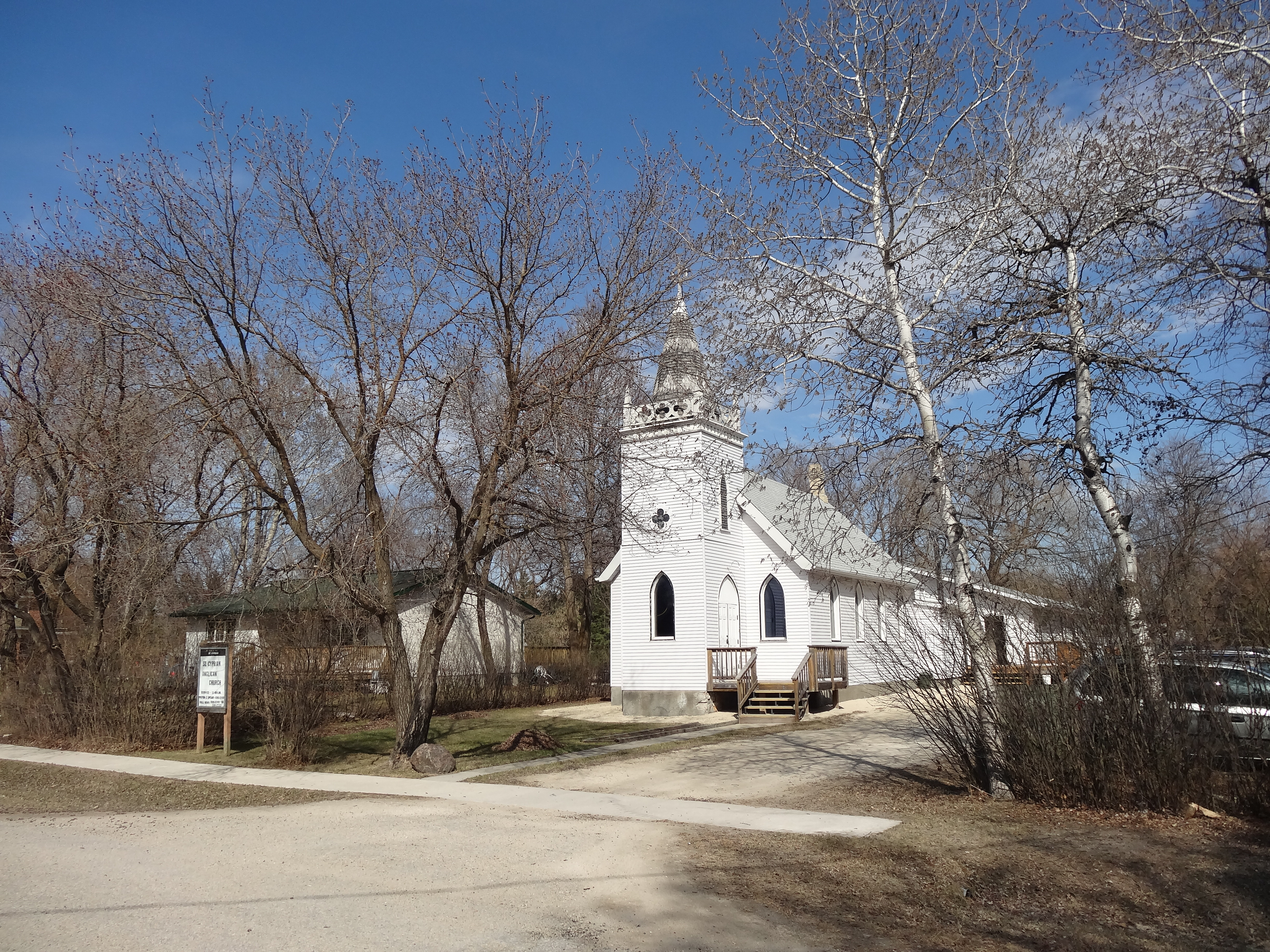 St Cyprian Anglican Church, Teulon, Manitoba churches